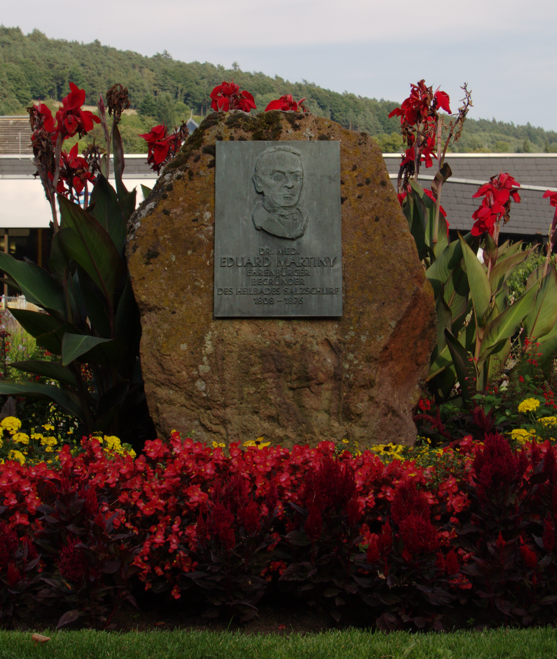 Memorial (Dr. med. Eduard Martiny: 1808-1876) in Bad Salzschlirf Lindenstrasse / Hesse / Germany